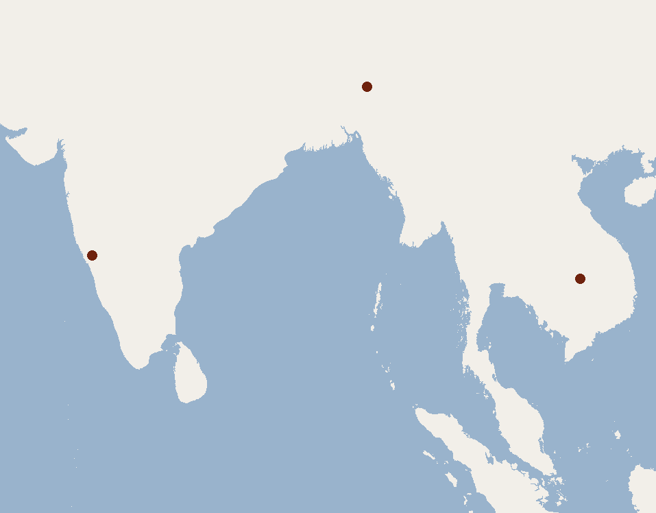 Geographical distribution of Otomops wroughtoni according to Museum specimens.